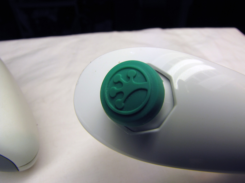 Grip-It placed on a WII controller